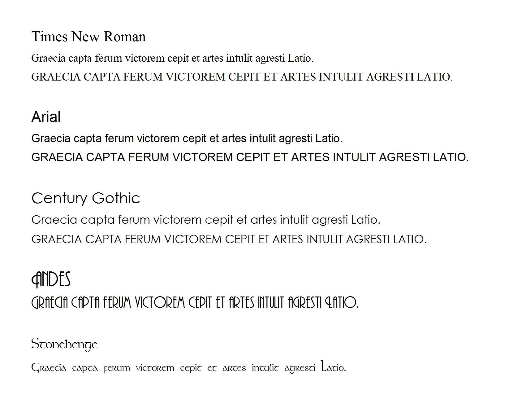 Here is a Latin quote by Horace reading Graecia capta ferum victorem cepit et artes intulit agresti Latio, which means "the captured Greece the wild winner took and introduced arts in the rural Latium", shown in five different typefaces of the Latin alphabet; Times New Roman, Arial, Century Gothic, Andes and Stonehenge.Created in Paint for Windows 7.